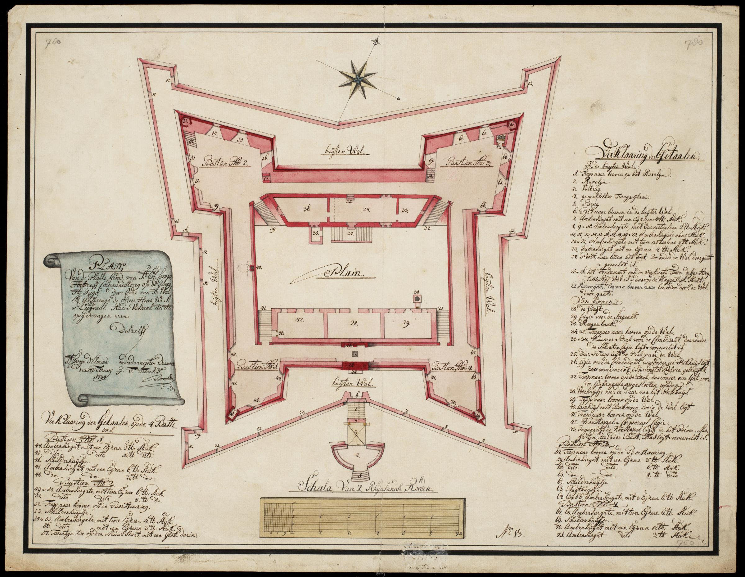 Floor plan of the Coenraadsburg fort at Elmina. Title in the Leupe catalogue (NA): Plan van de Platte grond van S. Ed. Comp. Fortres Coenraadsboerg, op de berg St. Jago. Plan / Van de Platte-Grond van S: Edl: Comp: Fortress Coenraadsboerg op de Berg St: Jago. Notes on reverse: No. 7 Fortres Coenraads Burg. Register 8, Deel 1, Folio 32, Portefeuille .. [inscribed on a blue label] / 476 509 [in pencil]. Key: 1-71. In the corners: 780 [in pencil]. Bottom right: No: 13.